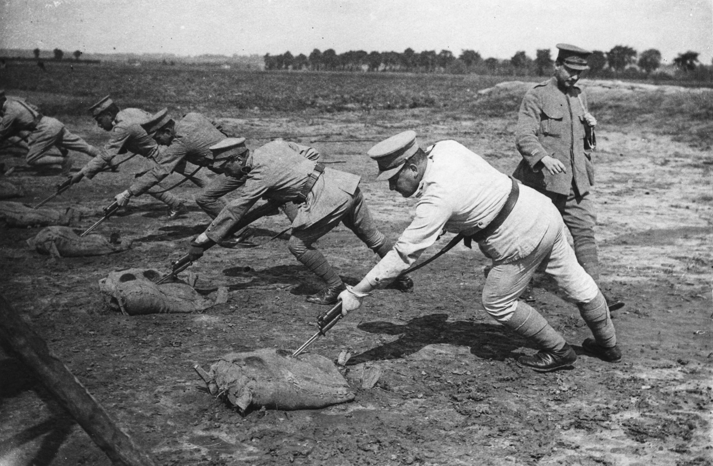 Portuguese officers at Bayonet training, World War I.